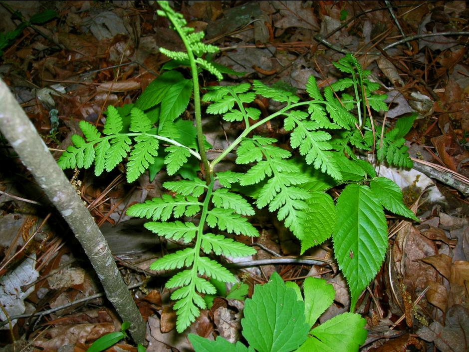 Botrychium virginianum, rattlesnake fern.